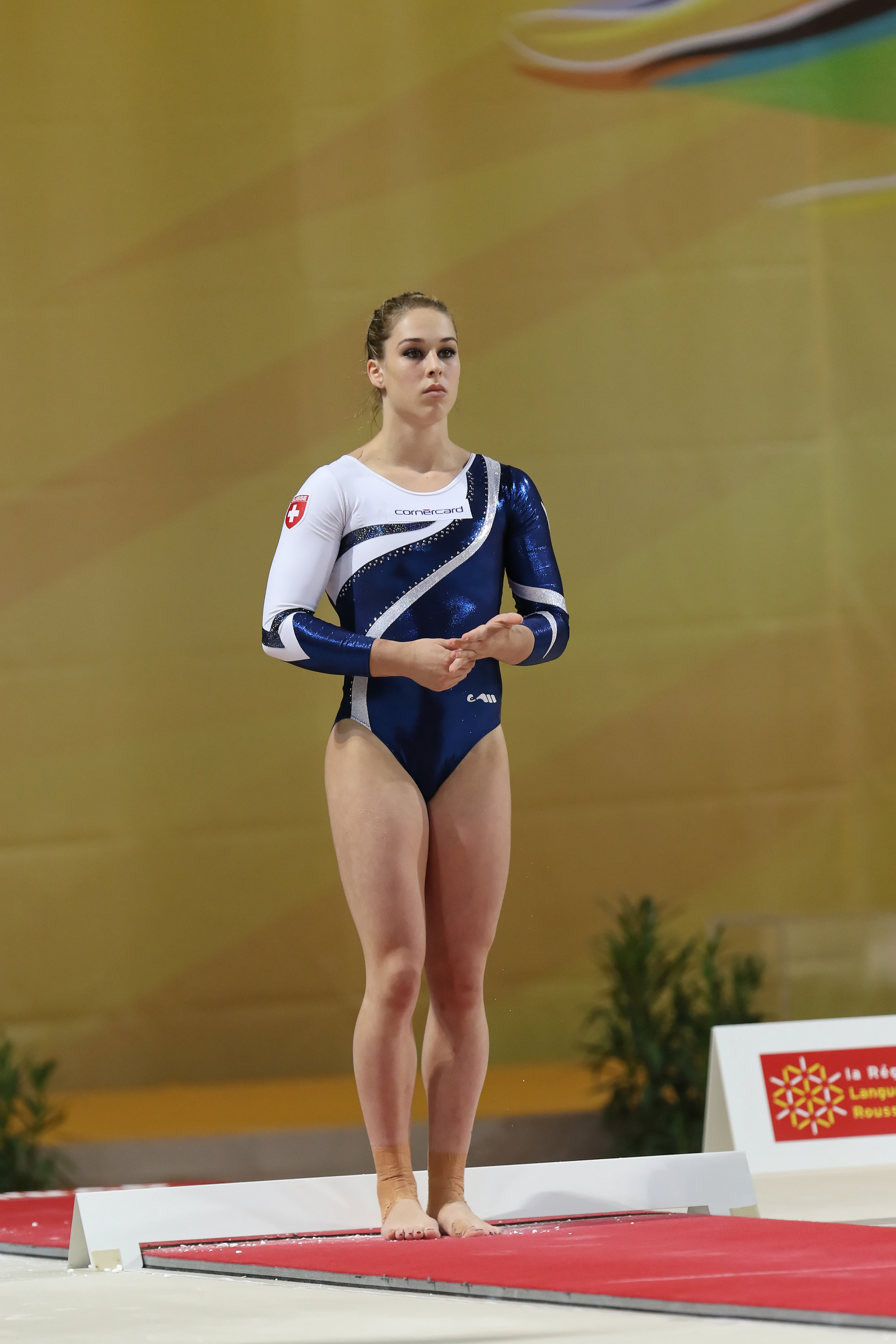 2015 European Artistic Gymnastics Championships. Vault.